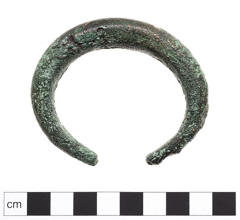 Hoard from Pile, Scania, 2000 BCE